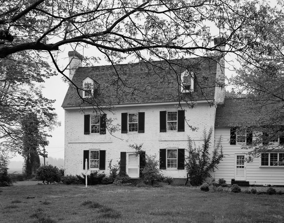 Carvill Hall, near Fairlee, Kent County, Maryland, USA. Cropped. On the National Register of Historic Places. Image courtesy of the federal HABS—Historic American Buildings Survey of Maryland.